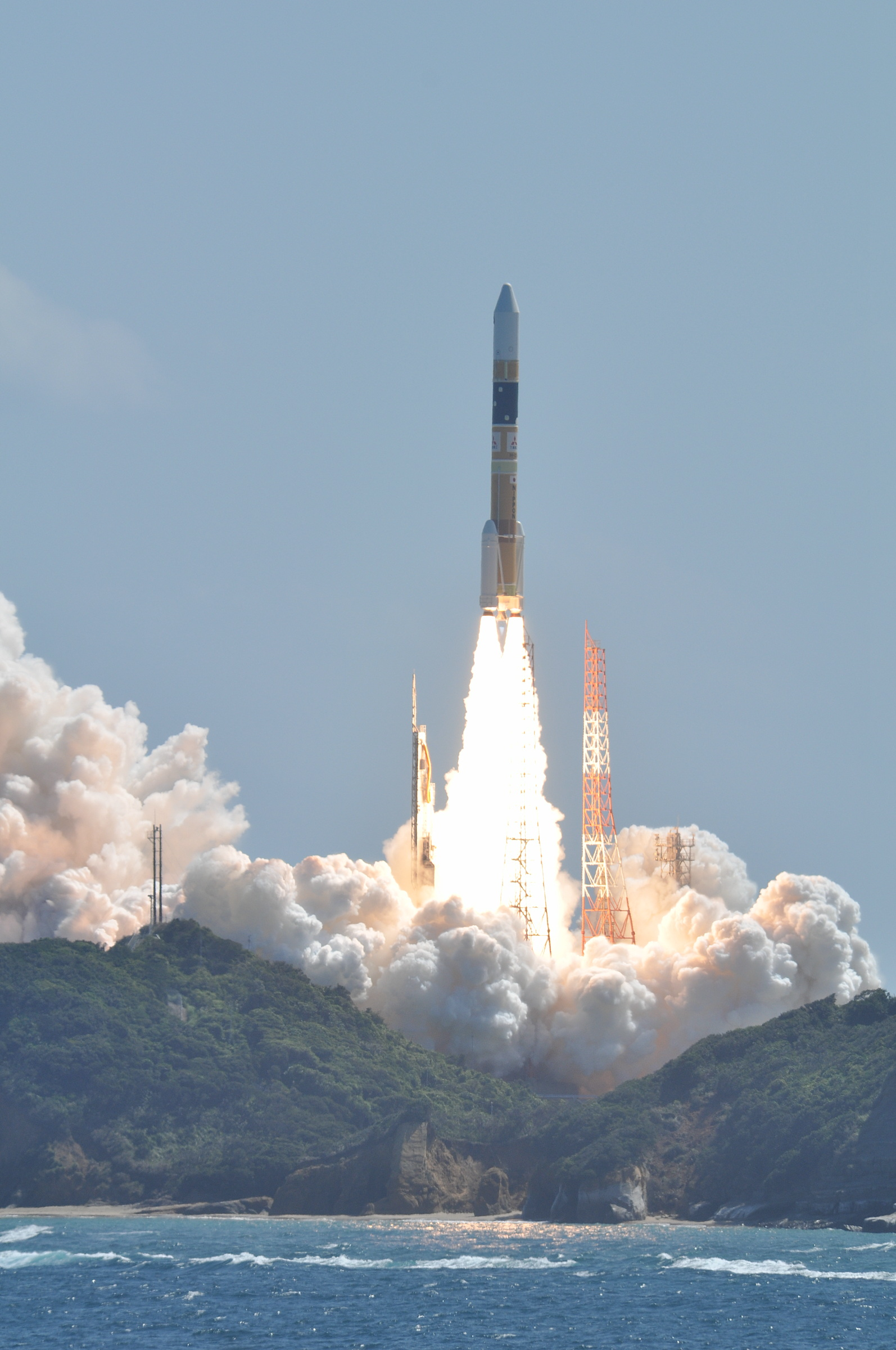 H-IIA Launch Vehicle Flight 19, launching the Information Gathering Satellite (IGS) Optical 4.